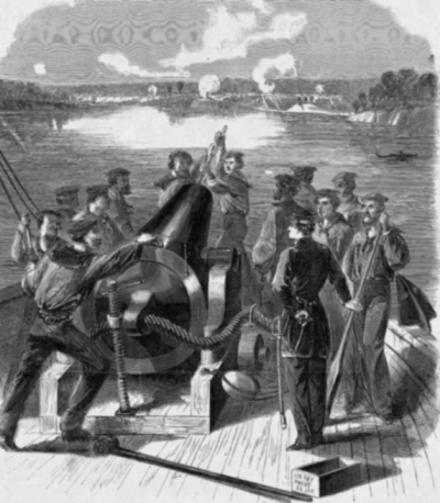 USS Richmond shells Confederate forces at Port Hudson Originally appeared on the cover of Harper's Weekly July 18, 1863. The caption read: The bombardment of Port Hudson-the 100 pound parrot gun of the "Richmond" at work. Sketched by an officer of the Navy.